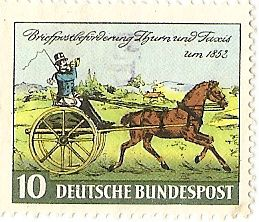 Stamp Thurn und Taxis Post 1852, transport with a "Karriol", taken from a coloured table by C. Scheiffele, now in the Post Museum of Frankfurt am Main